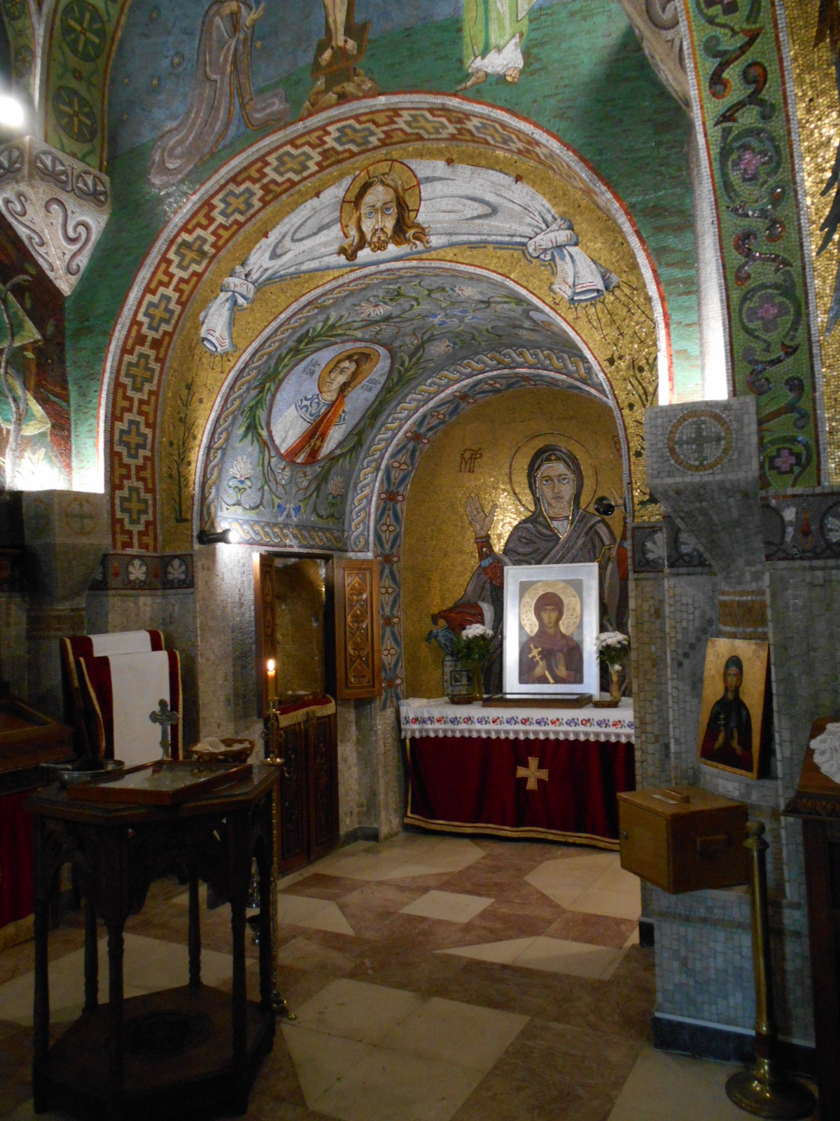 Apse of Sveta Petka church, Belgrade